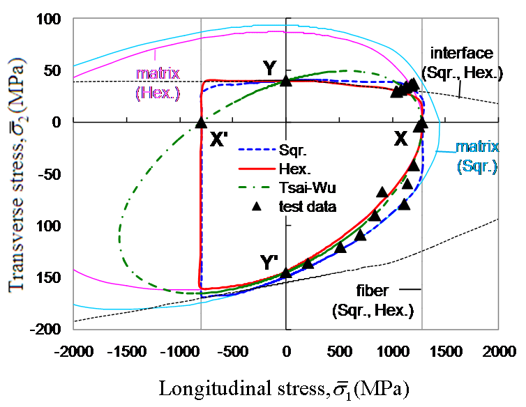 Comparison between theoretical failure predictions and test data